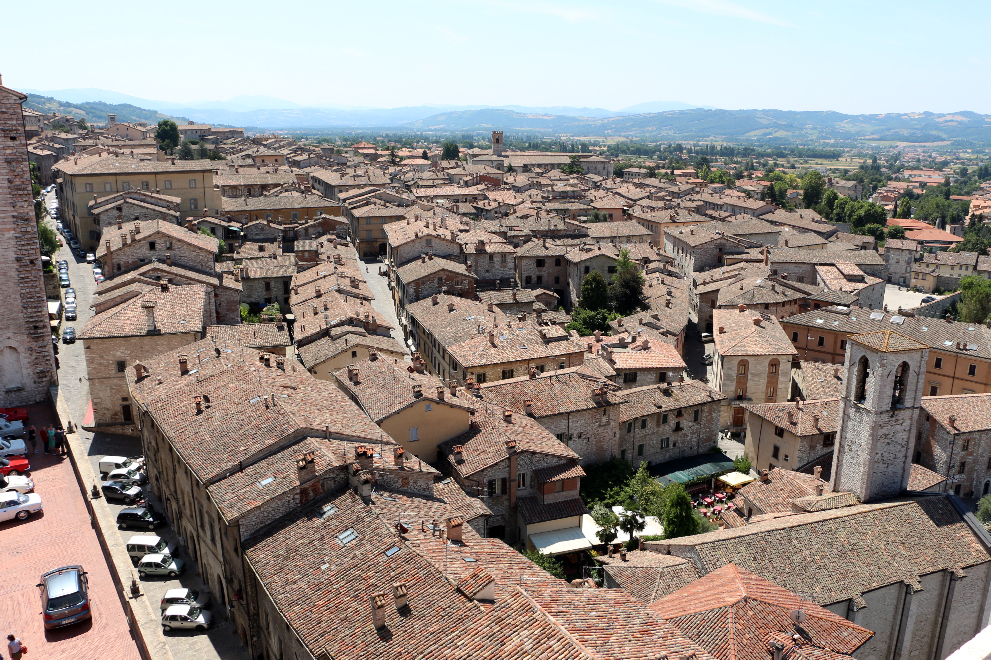 Palazzo dei Consoli (Gubbio)